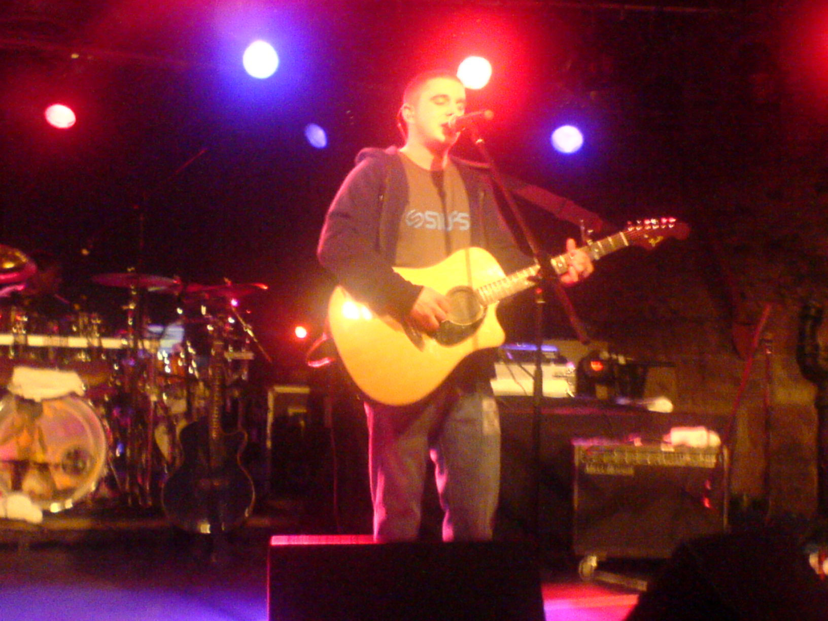 Plan B performing Dead & Buried in The Arches, Glasgow, 2nd February 2007.